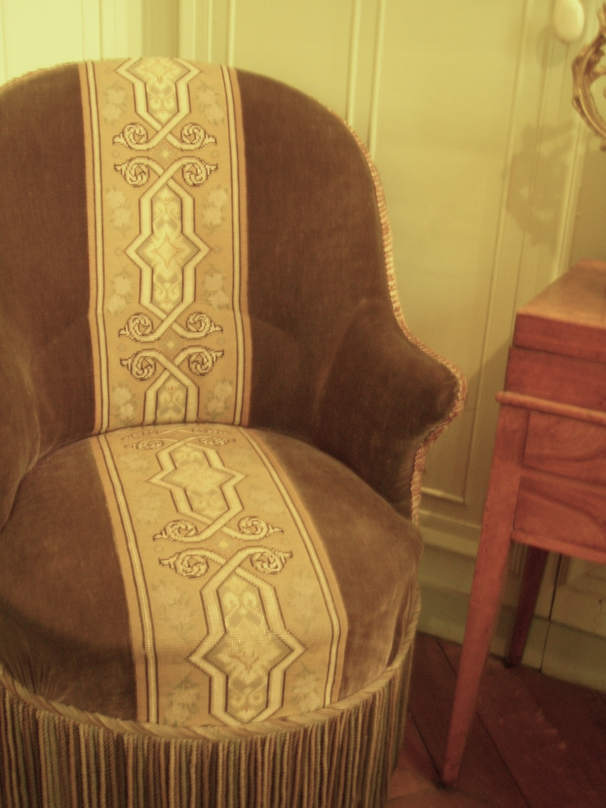 Chair in Musée Gustave Moreau, Paris.